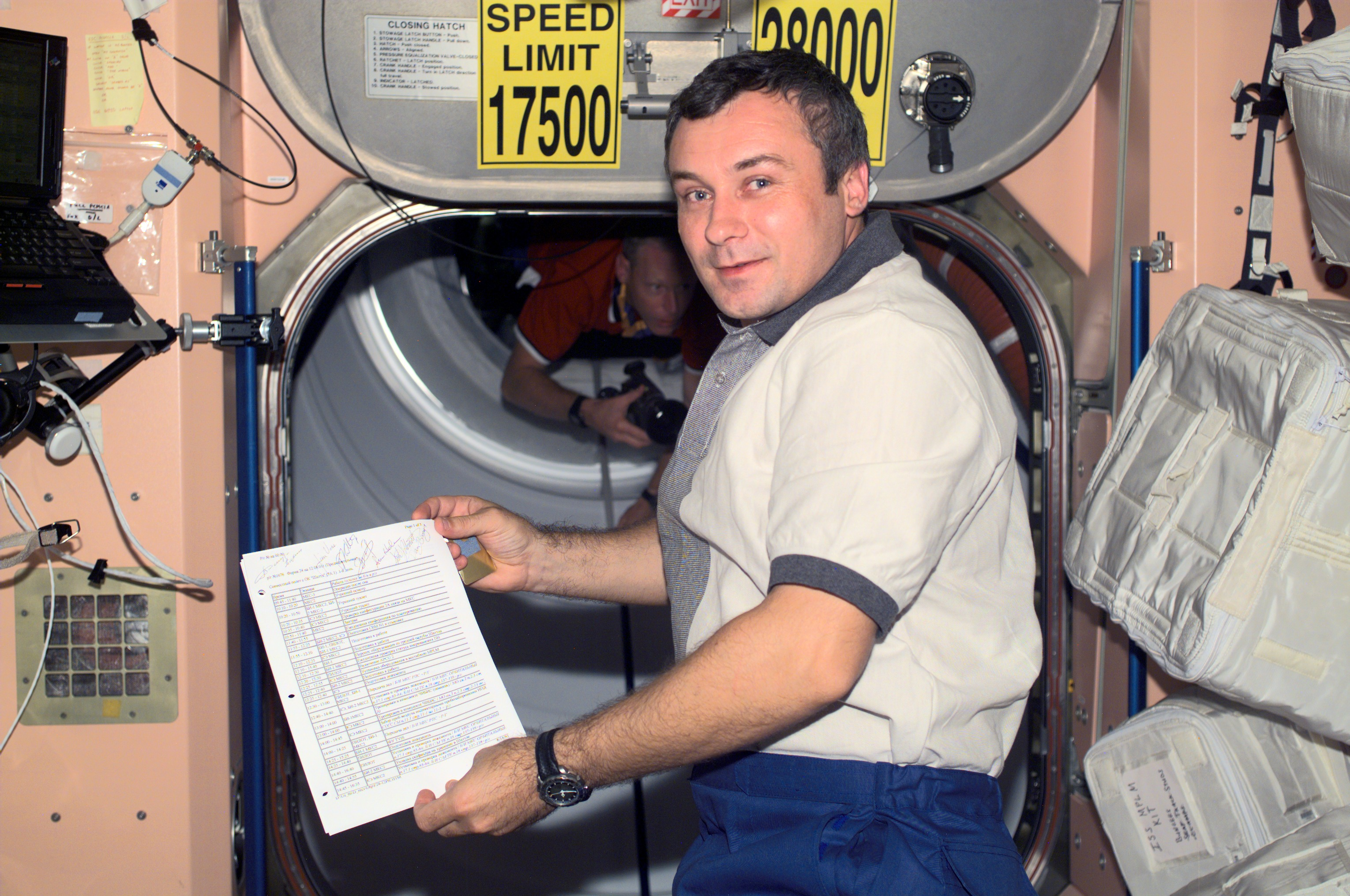 Cosmonaut Vladimir N. Dezhurov, Expedition Three flight engineer representing Rosaviakosmos, holds a document in the Unity node on the International Space Station (ISS). Astronaut Patrick G. Forrester, STS-105 mission specialist, is partly visible in the background. This image was taken with a digital still camera.